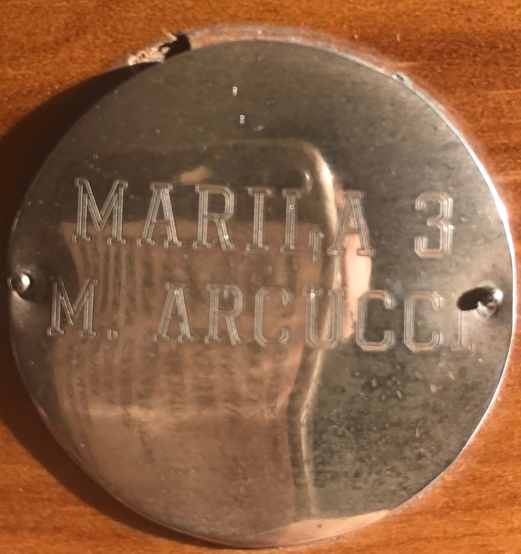 Patch on the trophy